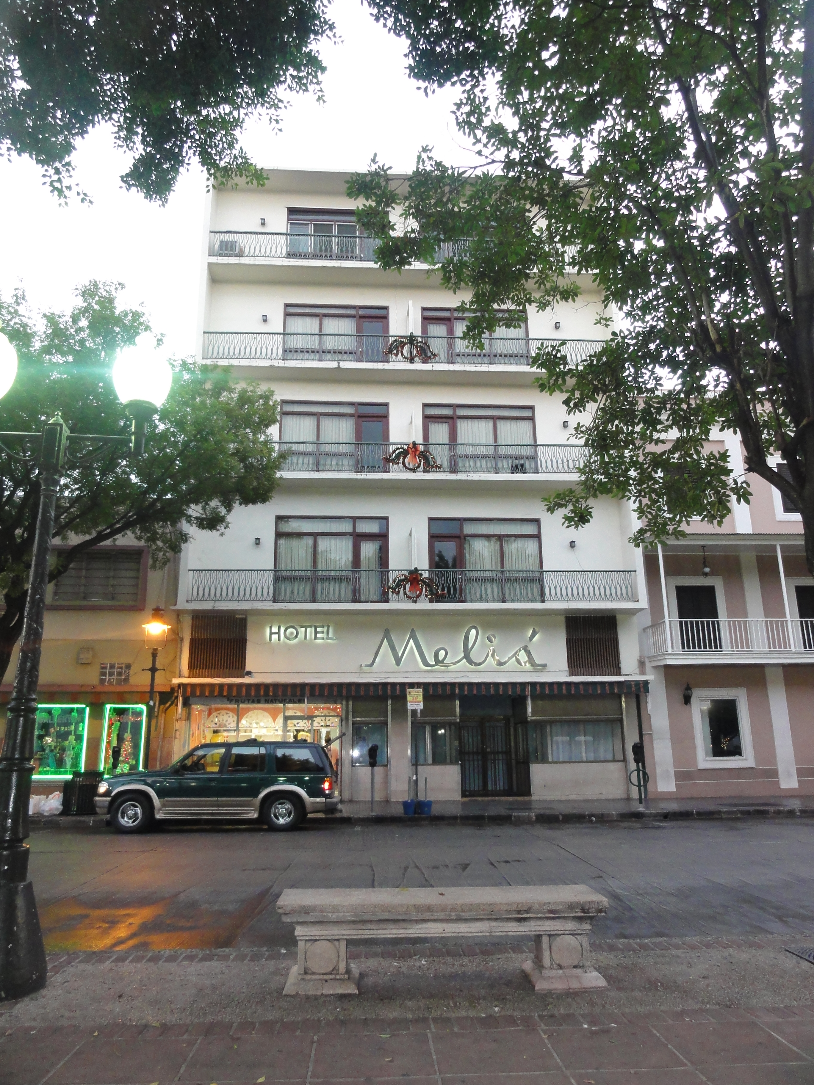 Hotel Meliá fachada hacia Plaza las Delicias (07179)